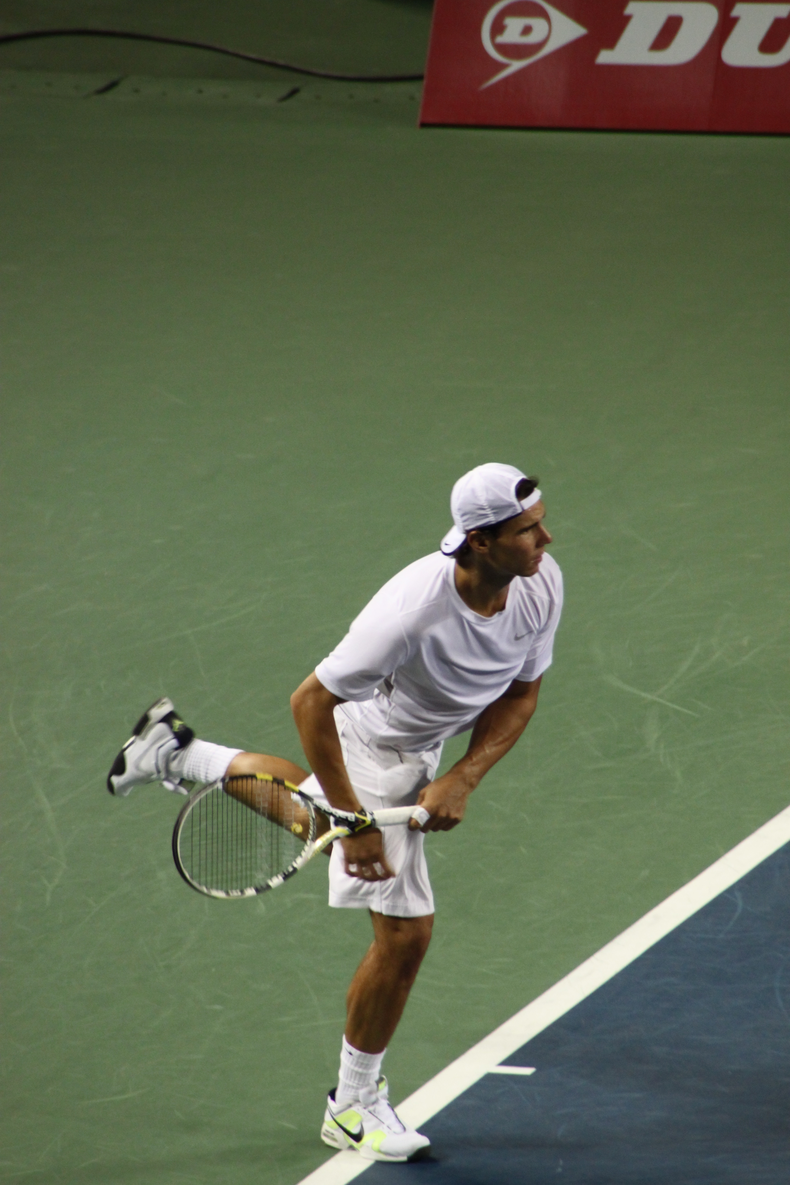 Rafael Nadal at 2010 Rakuten Japan Open Tennis Championships, Tokyo, Japan